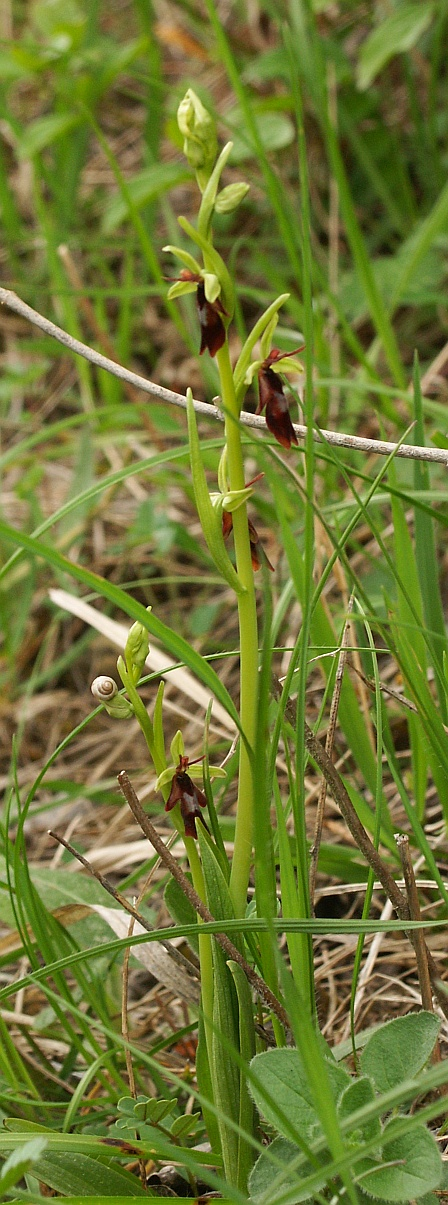 Ophrys insectifera, Tauberland, Germany